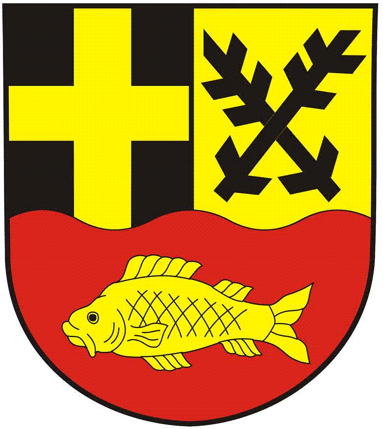 Municipal coat of arms of Křižanovice village, Chrudim District, Czech Republic.